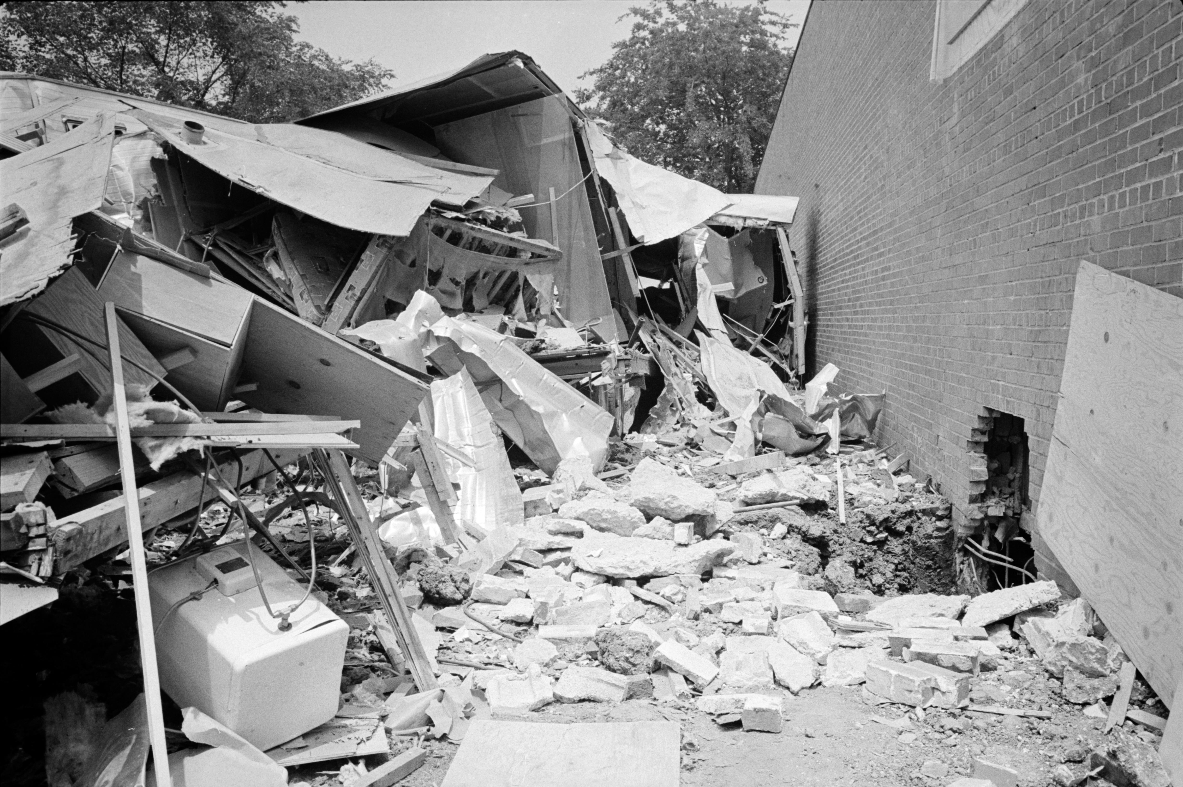 Photograph showing the wreckage of a bomb explosion near the Gaston Motel where Martin Luther King., and leaders in the Southern Christian Leadership Conference were staying during the Birmingham campaign of the Civil Rights movement. Trikosko, Marion S., photographer.